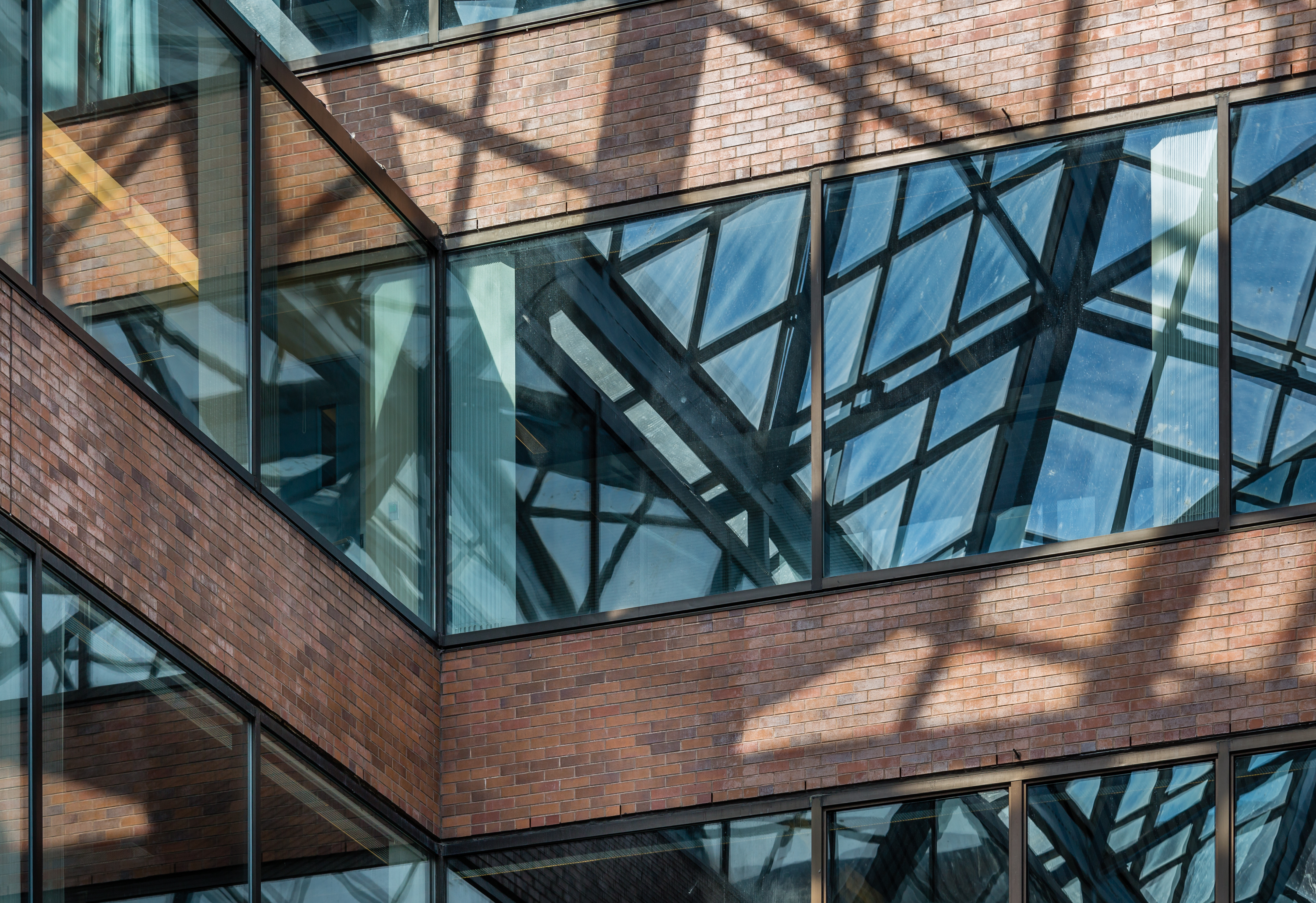 Corner of the walls in the foyer of the Central Branch of Greater Victoria Public Library, Victoria, British Columbia, Canada. The shadows and the reflection show construction of the glass roof